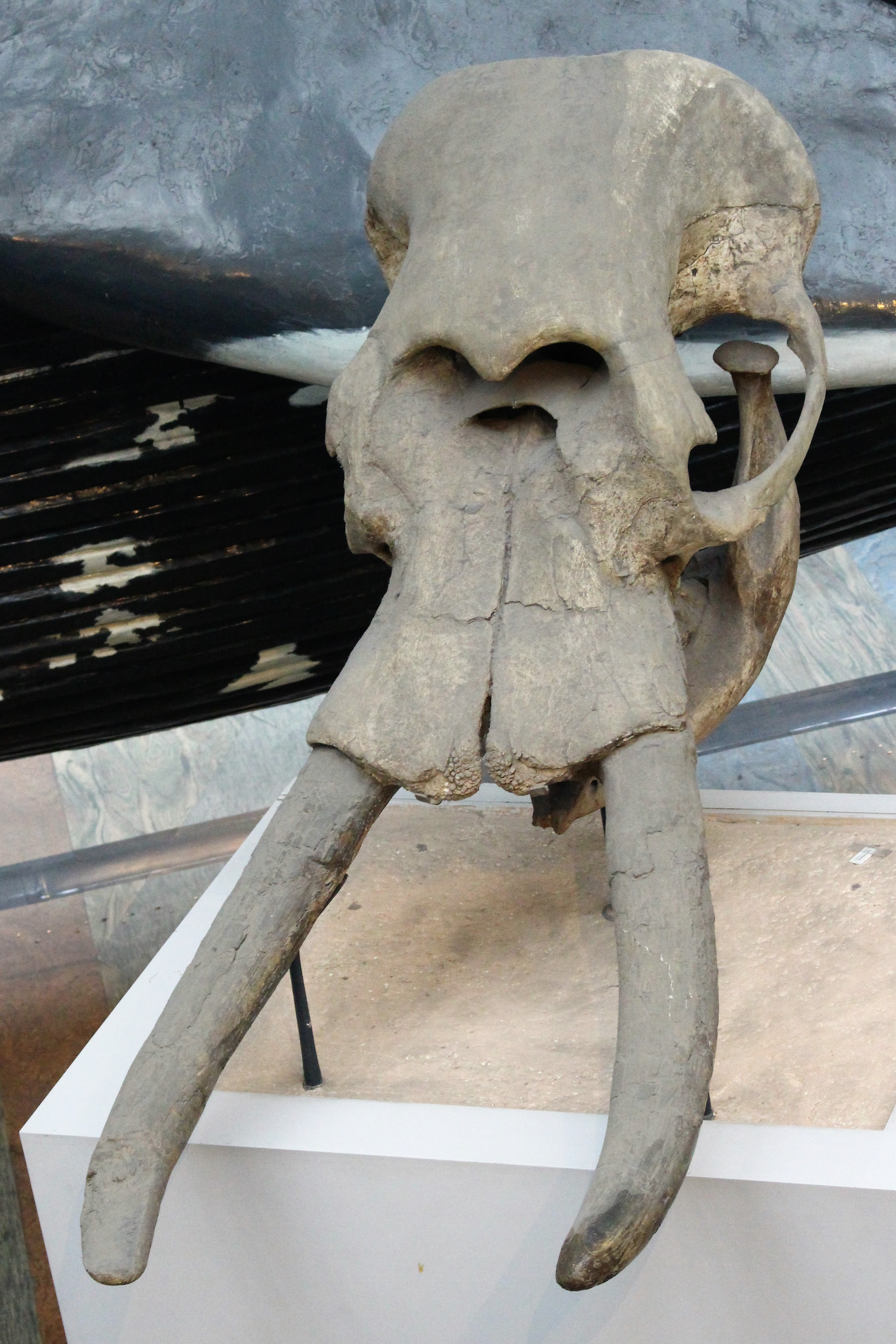 Cuvieronius skull at the Natural History Museum in London, England.